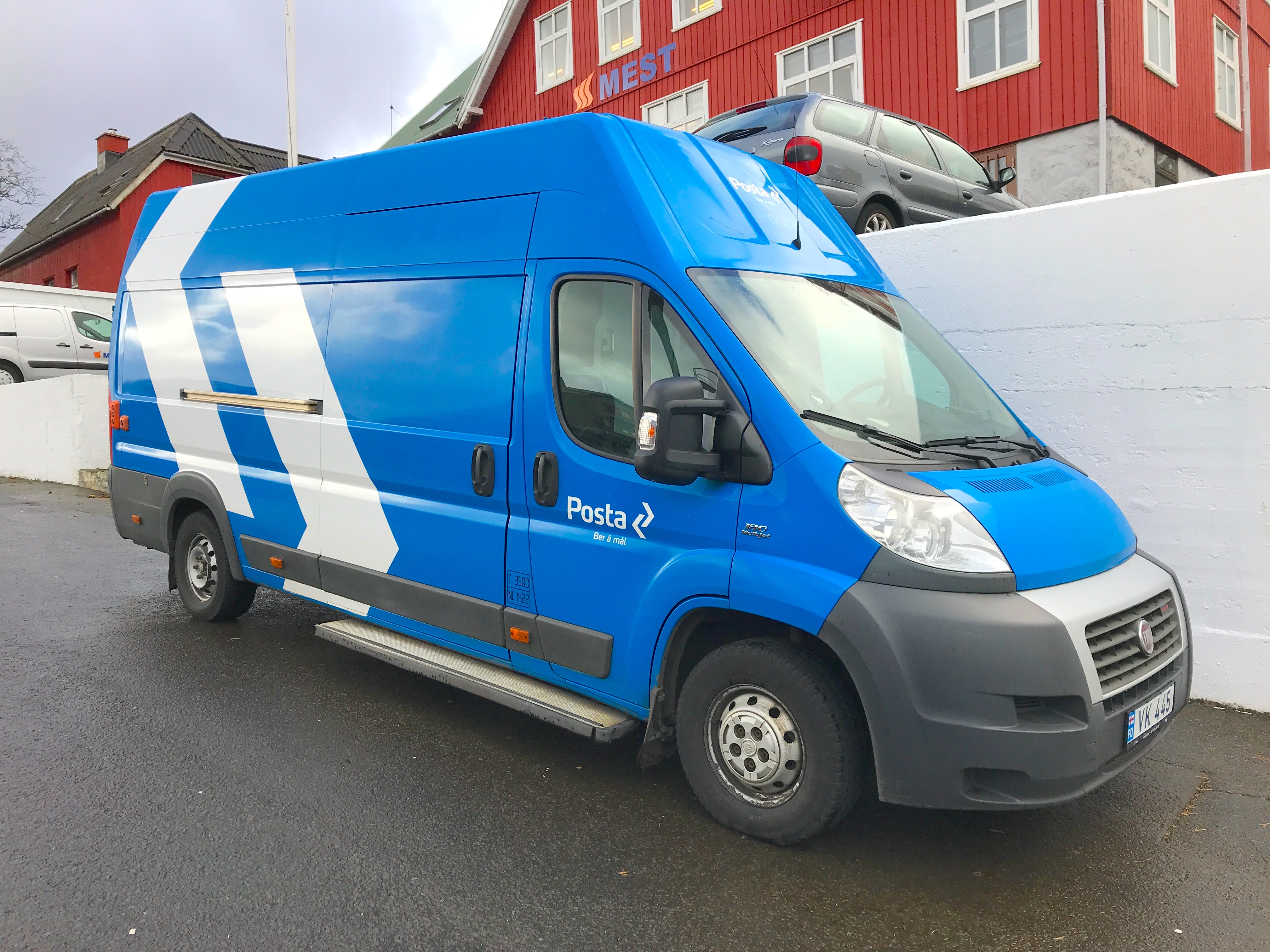 A delivery van of Posta, the state postal service of the Faroe Islands.